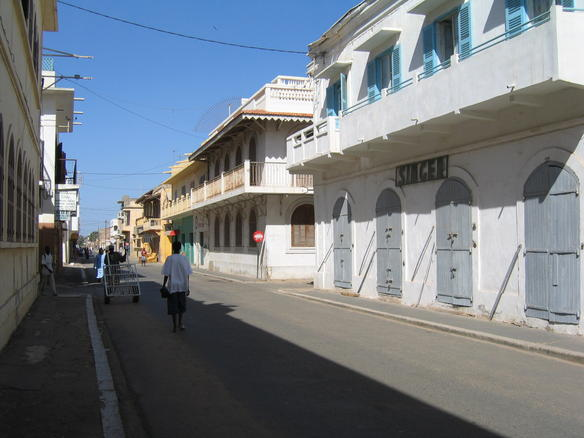 A street in Saint-Louis, Senegal